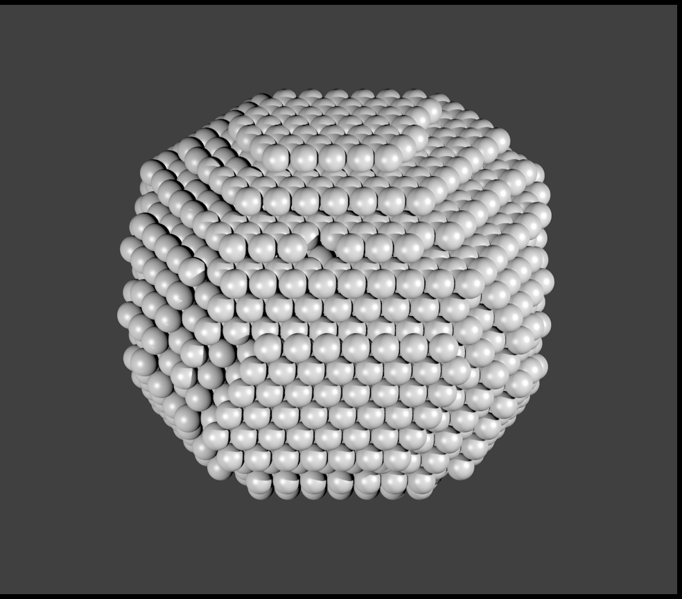 A possible model for an ideal nanocluster is built from Pt atoms (draft version).